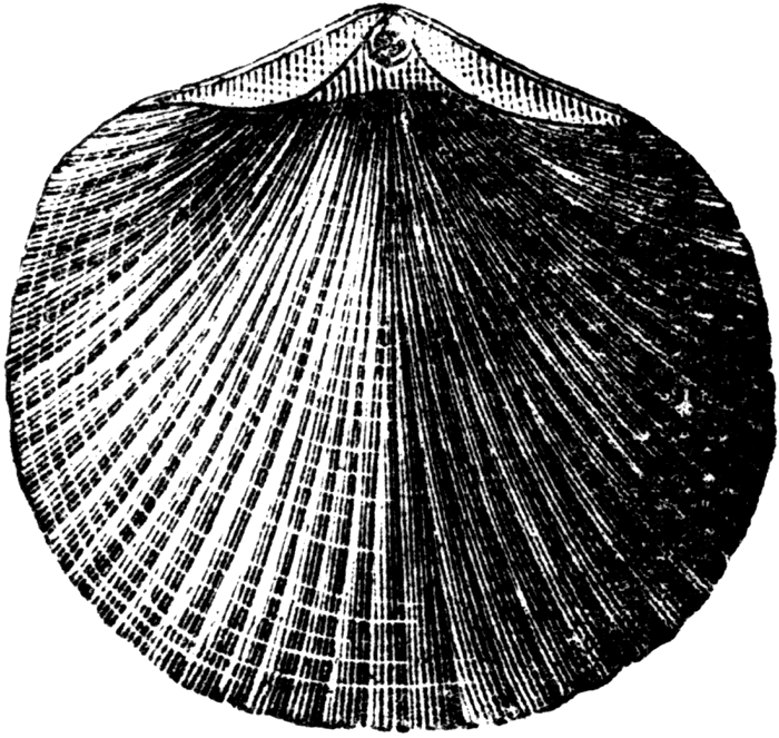 Atrypa reticularis - Plate from James D. Dana - New Text-Book of Geology (New York: Ivison, Blakeman & Company, 1883)